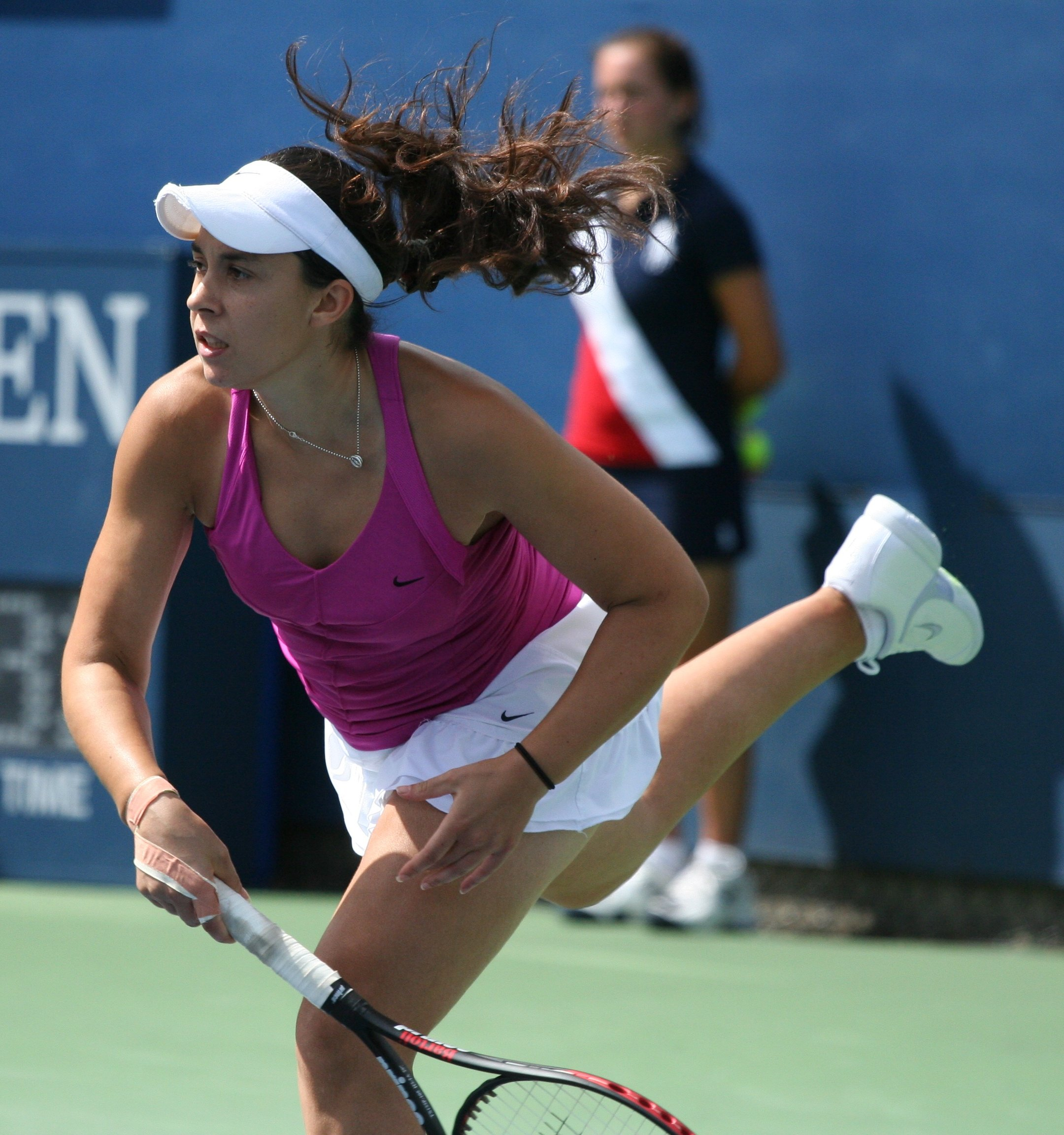 U.S. Open Monday, Aug. 31, 2009